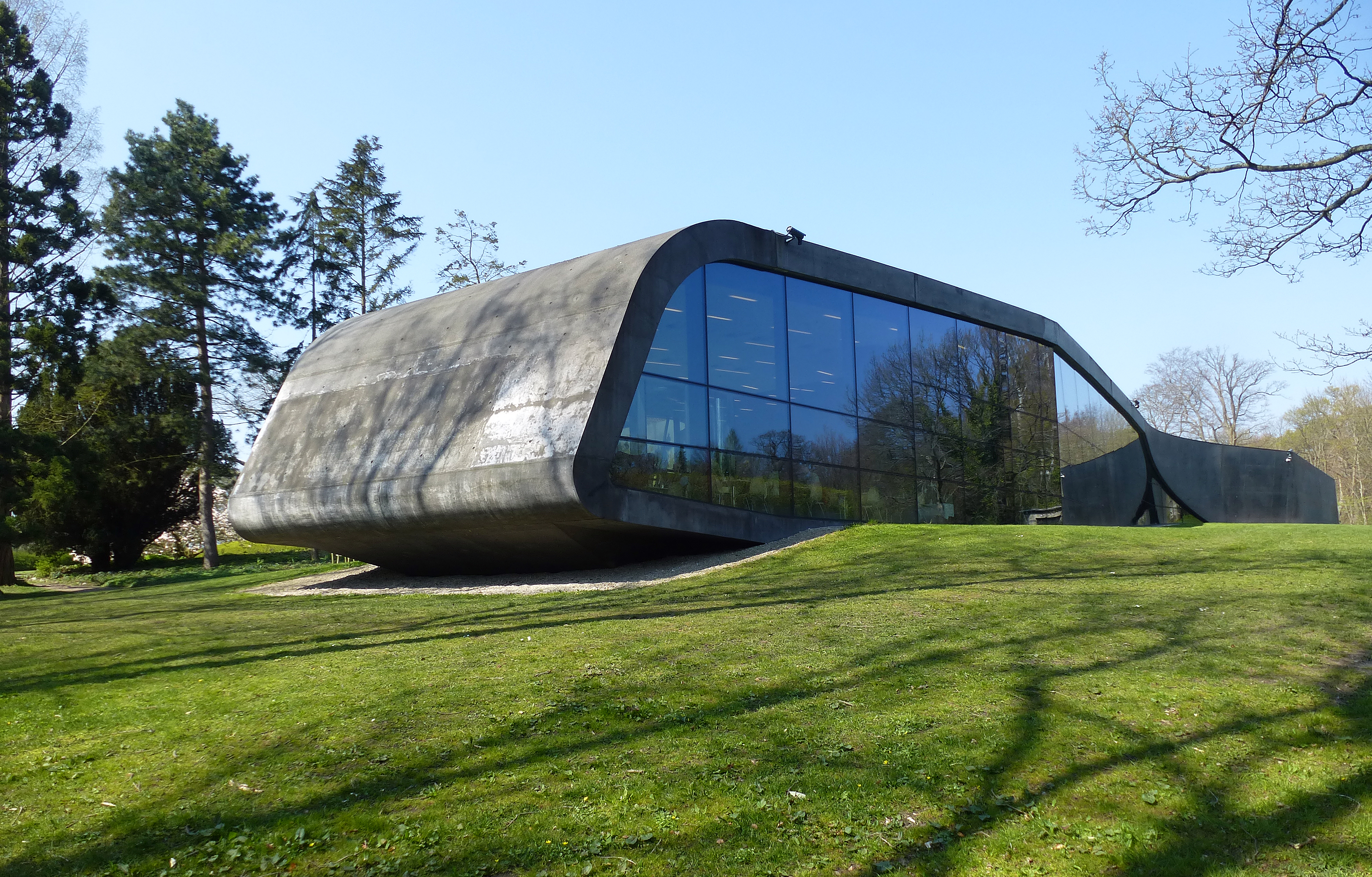 Architect: Zaha Hadid's extension of Ordrupgaard in Copenhagen, Denmark